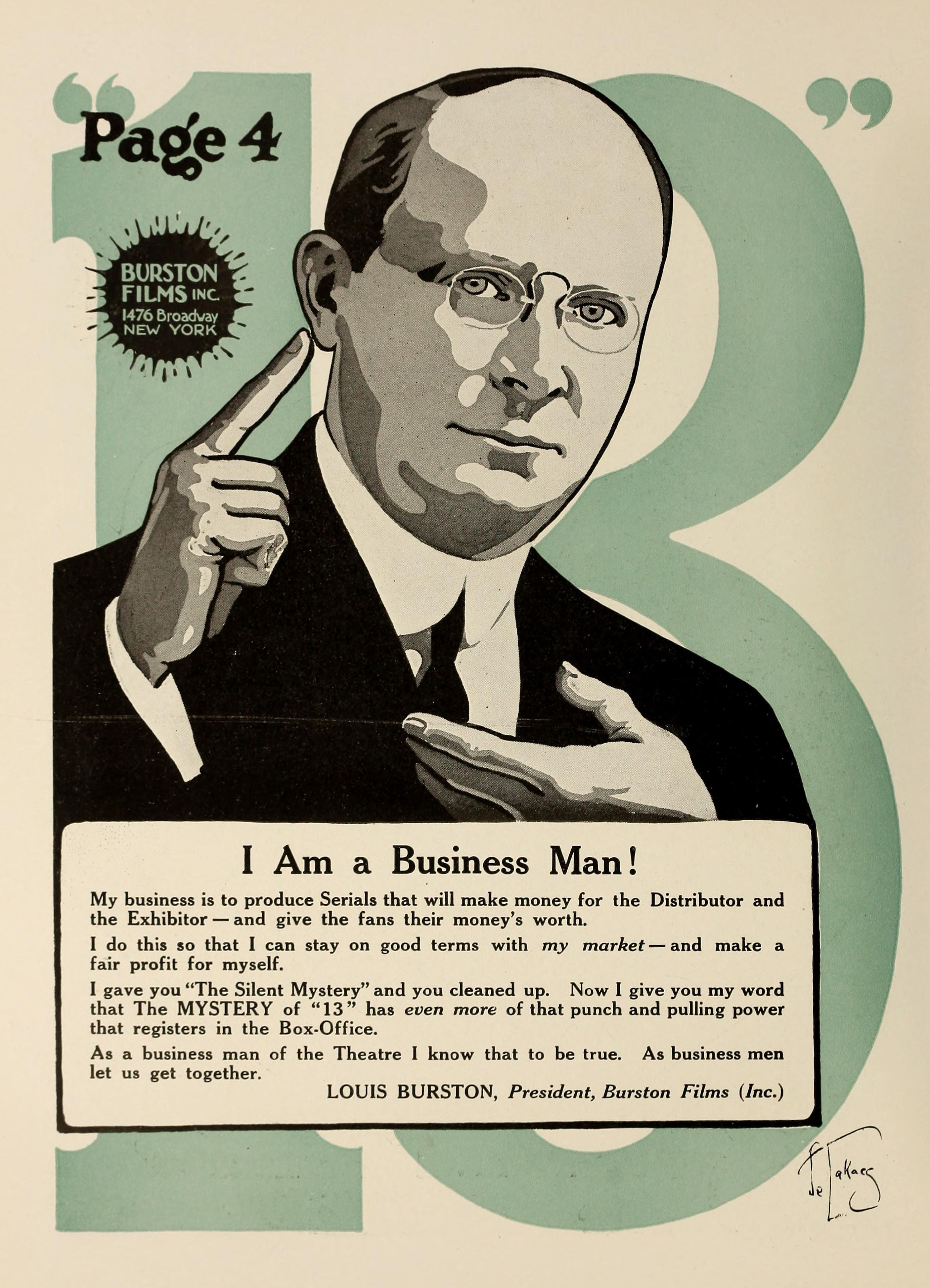 Advertisement "I am a Business Man" in Moving Picture News with drawing representing Louis Burstein, aka Louis Burston.